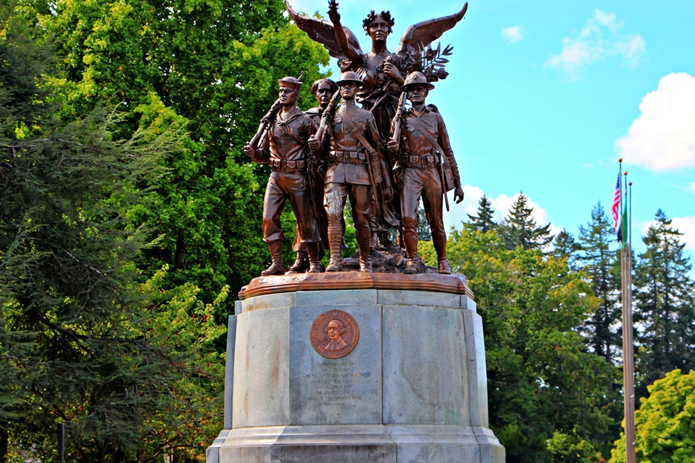 the statue "Winged Victory" in Olympia, Washington, United States